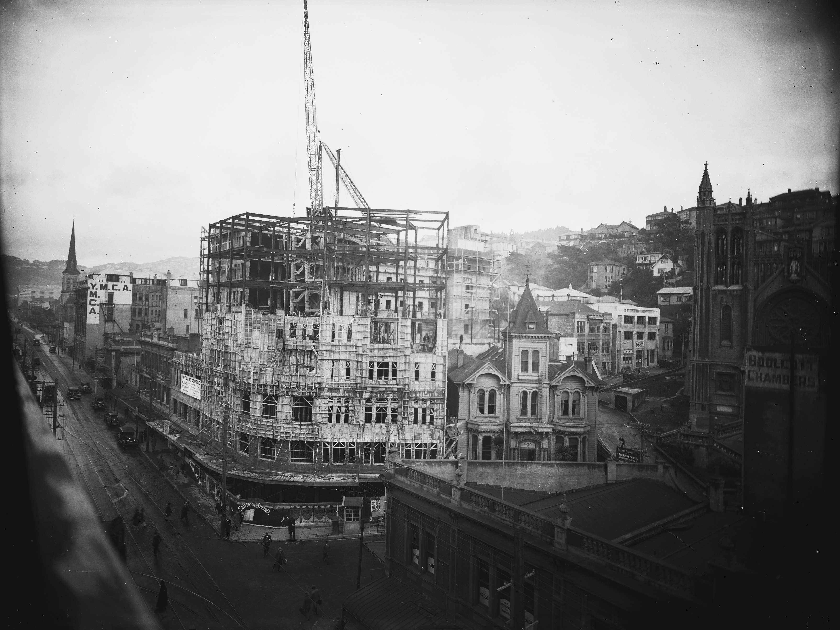 Photographer: William Hall Raine Willis and Boulcott Streets, Wellington, with the Hotel St George under construction, 1930 Reference number: 1/1-018060-G Glass negative Photographic Archive, Alexander Turnbull Library